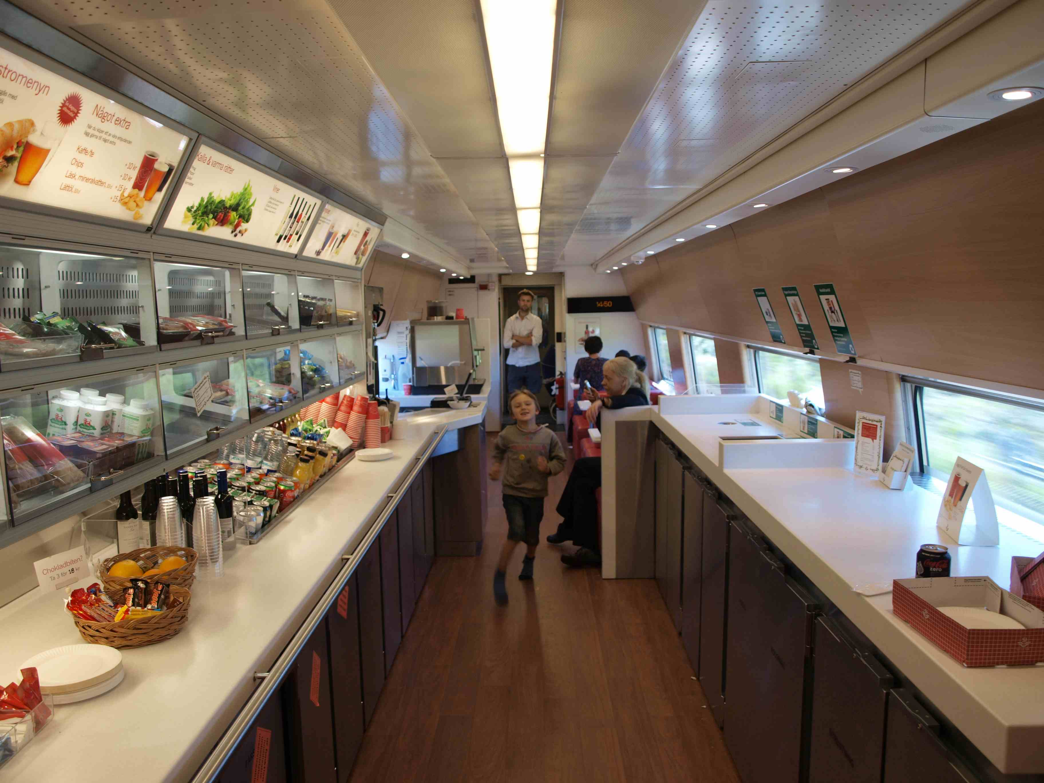 A dining car in a Swedish X 2000 train from Stockholm to Malmö.